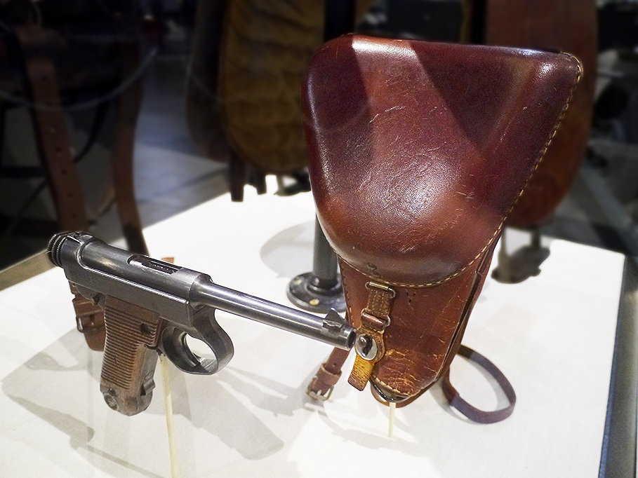 The Type 14 pistol was designed by Japanese general Kijiro Nambu around 1925. Series 1 pistols were produced from December 1941 to November 1943, this particular weapon was produced in August 1943. It has the enlarged trigger guard which is seen in 1940's production pistols, allowing the gun to be fired with a gloved hand. This pistol is displayed with its original magazine and holster. Exhibited in the Texas Military Forces Museum in Austin, Texas.